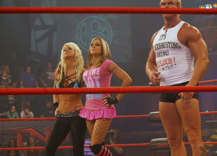 Cute Kip as fashionist of The Beautiful People.